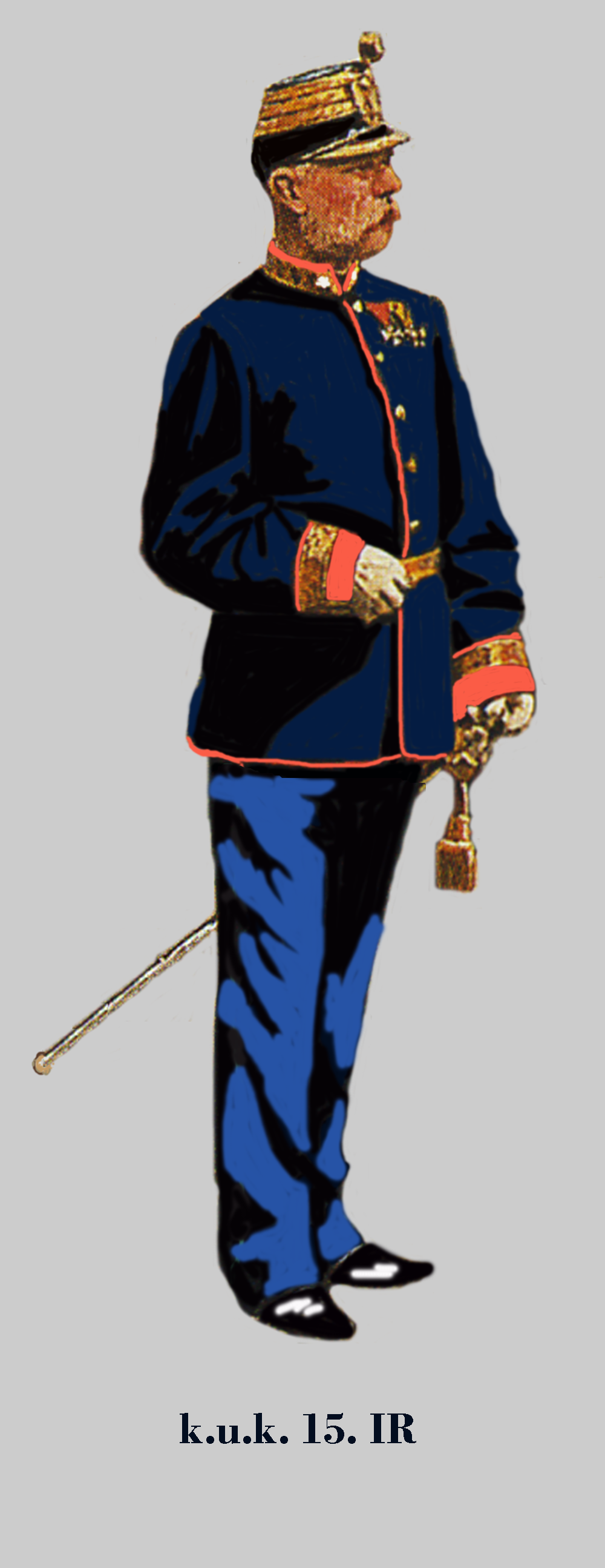 Major of the Austria-Hungarian (k.u.k.). 15th german Infantry Regiment in Parade dress. 1914